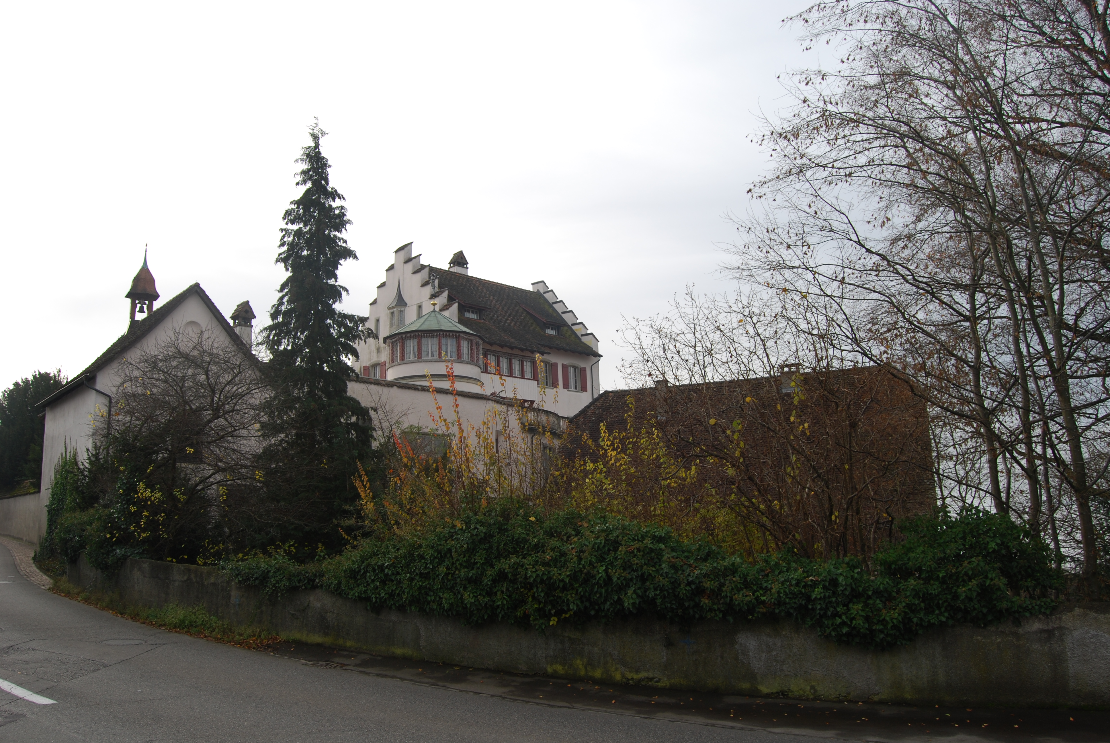 Castle Bellikon, canton of Aargau, SwitzerlandEsperanto: Kastelo Bellikon, Kantono Argovio, Svislando